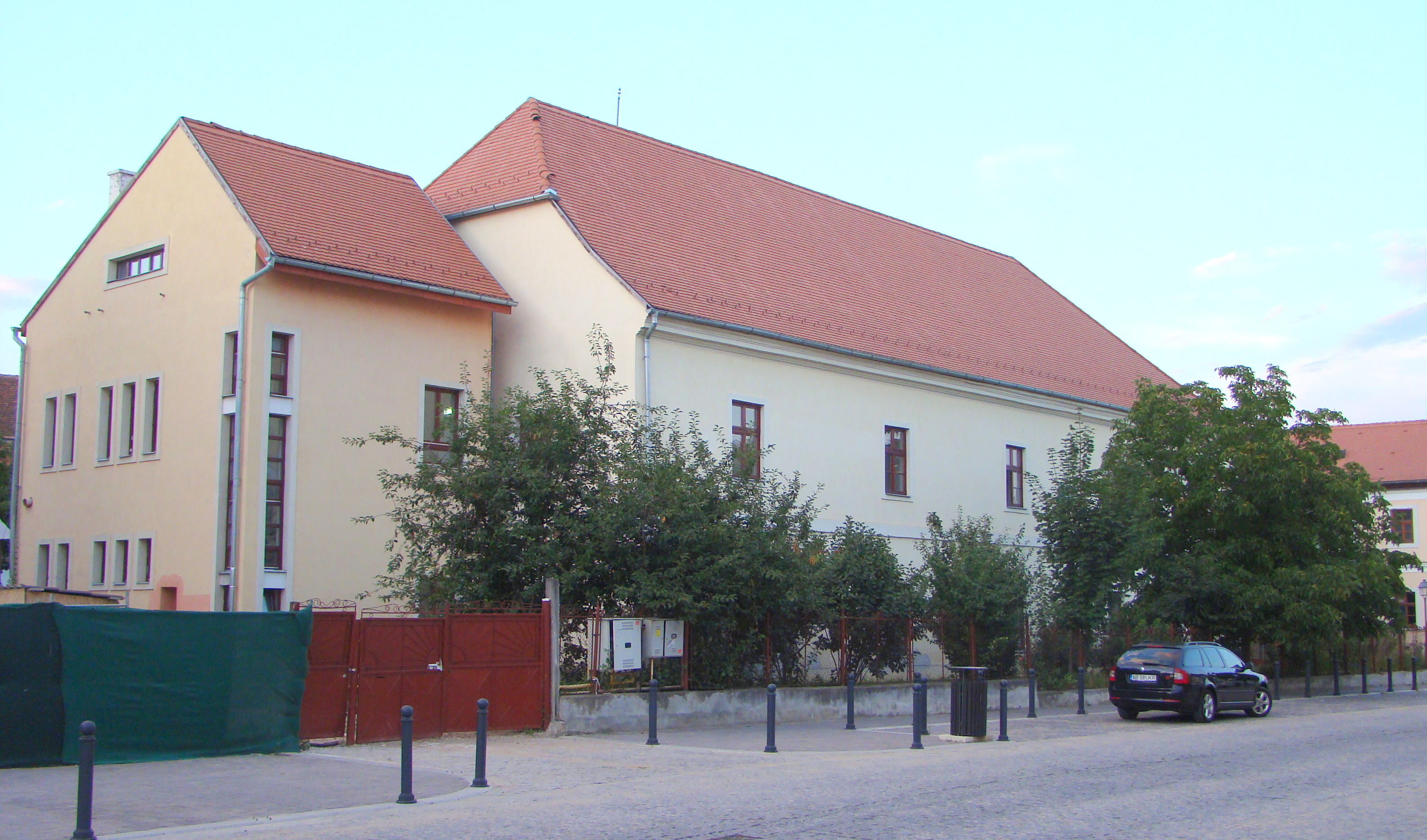 House, historic monument, Unirii street, number 13, Alba Iulia, Alba county, Romania